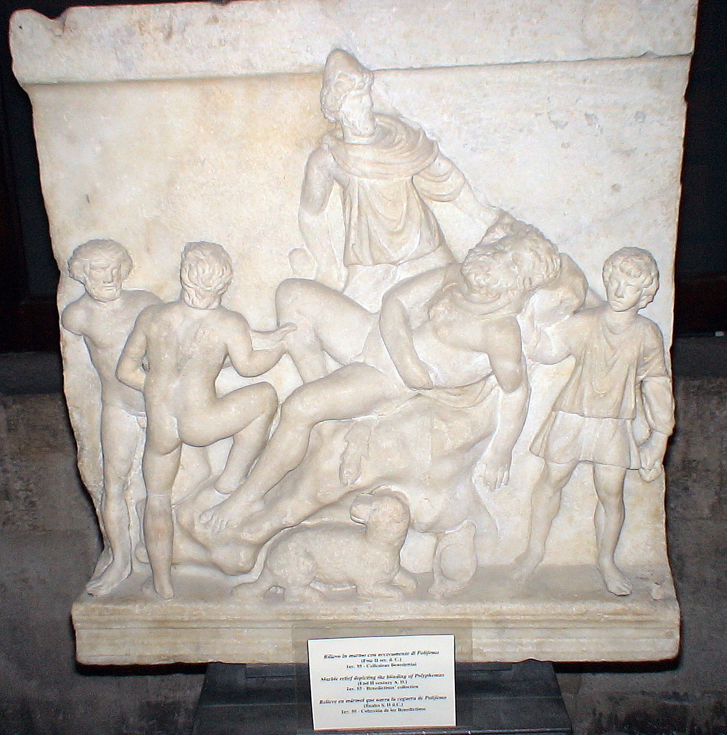 Castello Ursino castle Museum in Catania, Italy. A relief from an Ancient Roman sarcophagus displaying a scene from Odyssey (Odysseus and his comrades blinding Polyphemus). 2nd century AD. Picture by Mihailo Grbic.